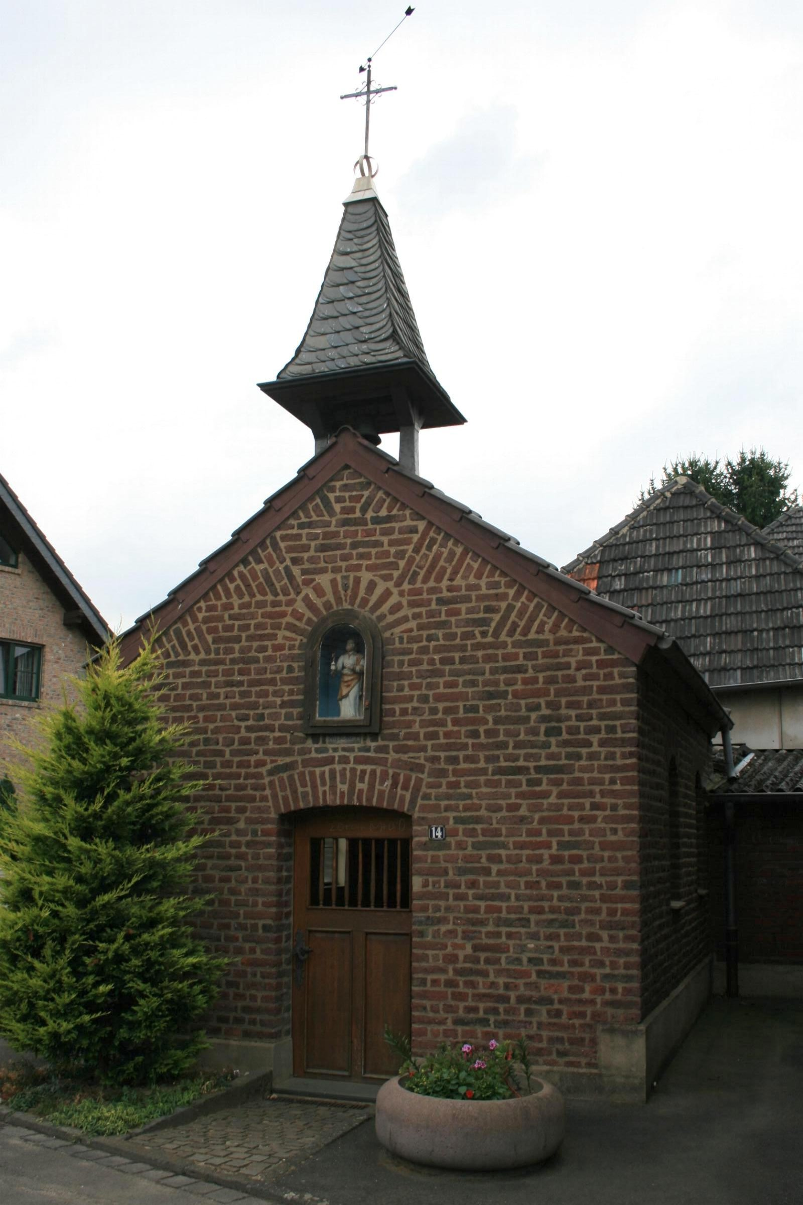 Cultural heritage monument No. A 049 in Mönchengladbach